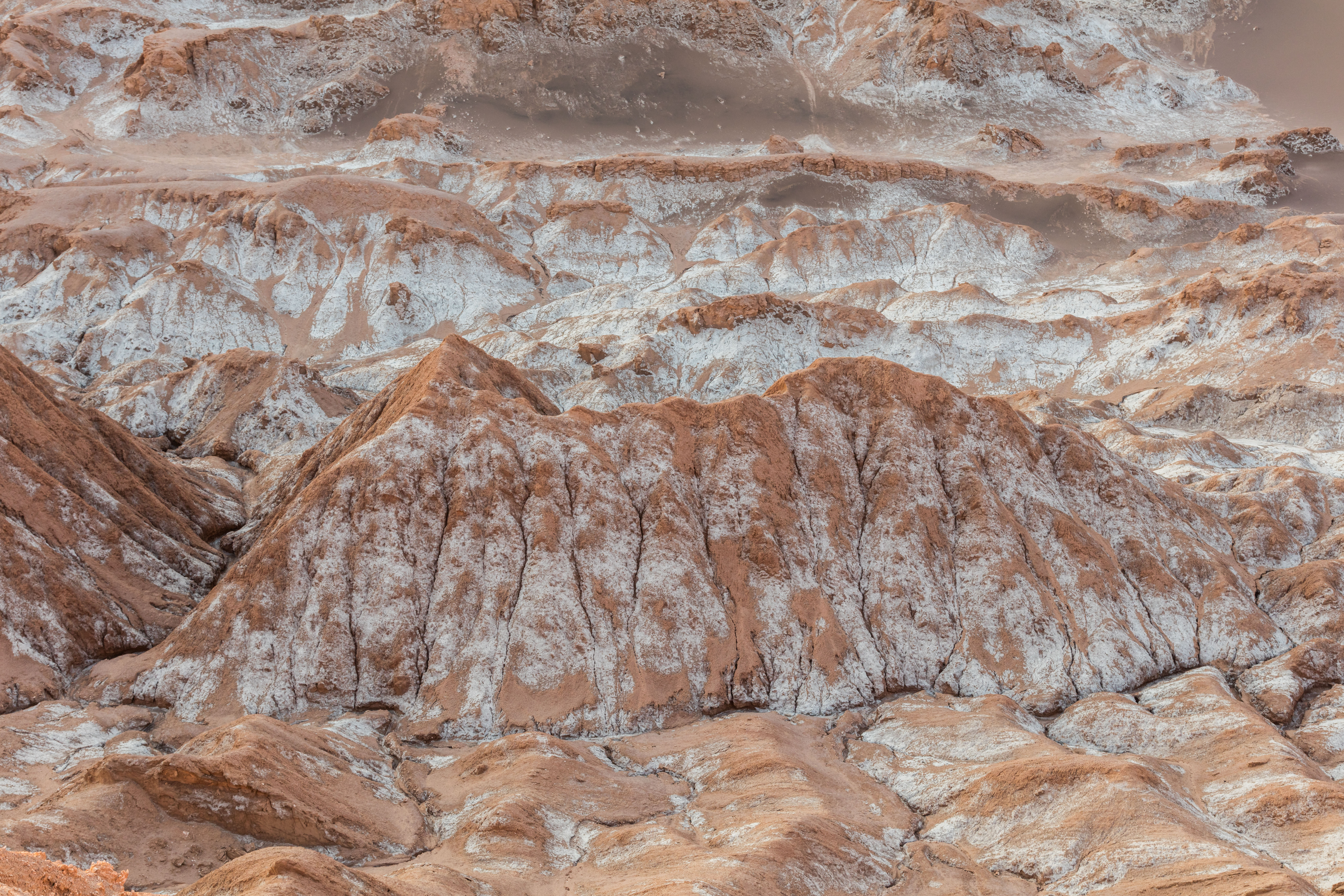 Valle de la Luna, San Pedro de Atacama, Chile